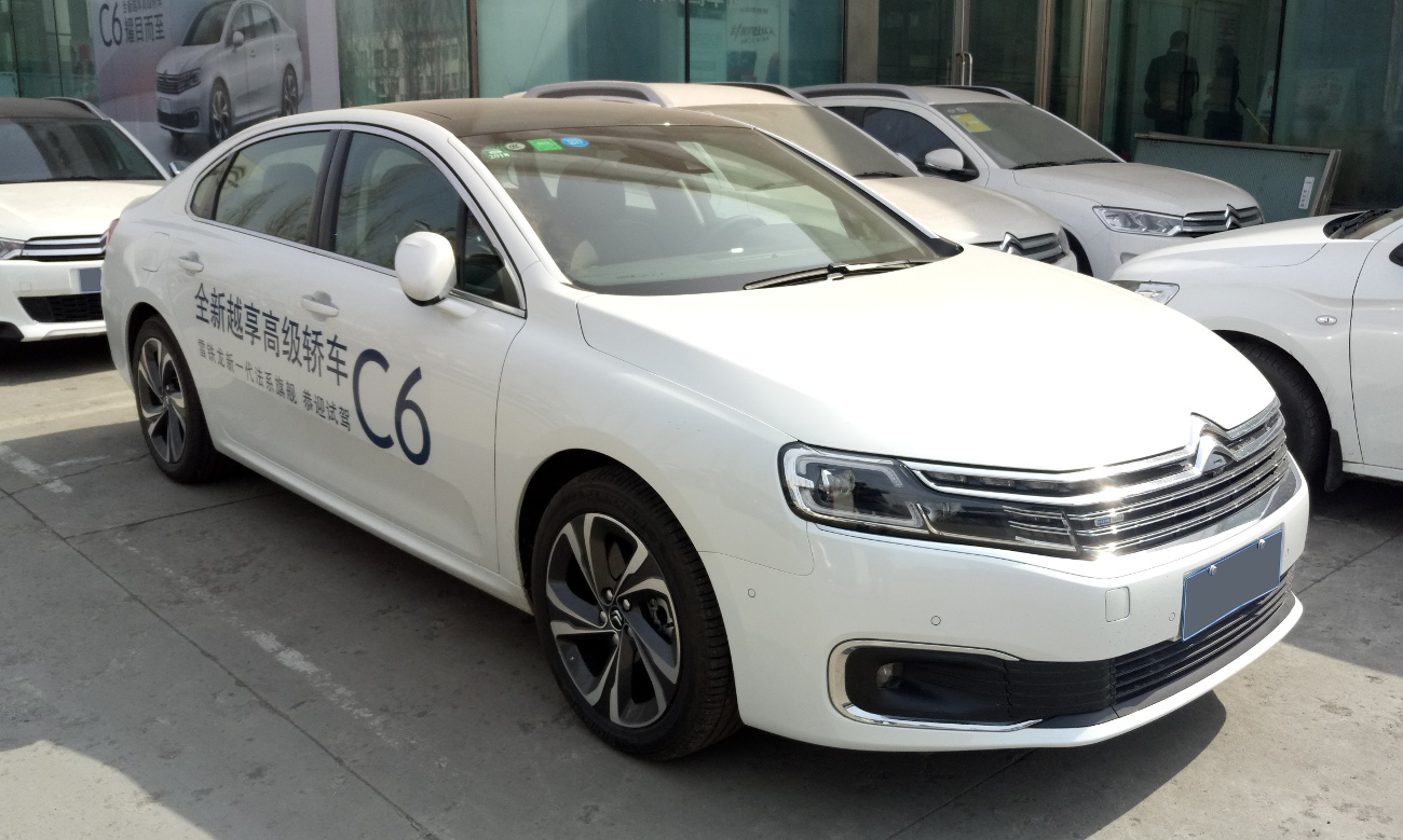 Citroën C6 II photographed in Harbin, Heilongjiang province, China.